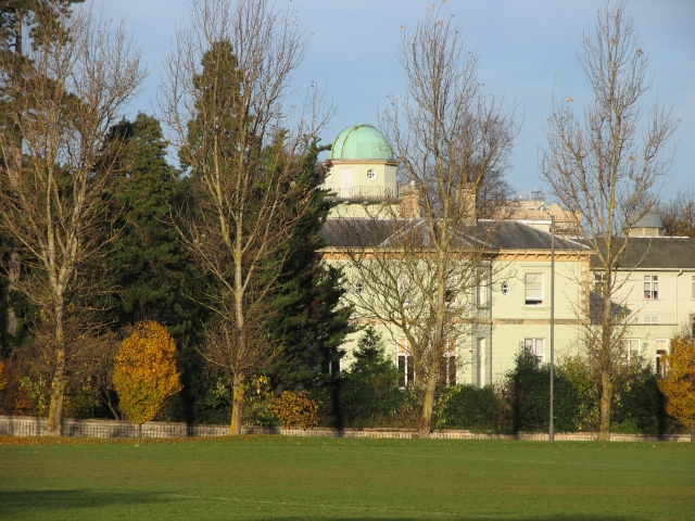 The Copper Dome - Thirlestaine Hall, Cheltenham, Gloucestershire. Thirlestaine Hall is now the headquarters of the Chelsea Building Society